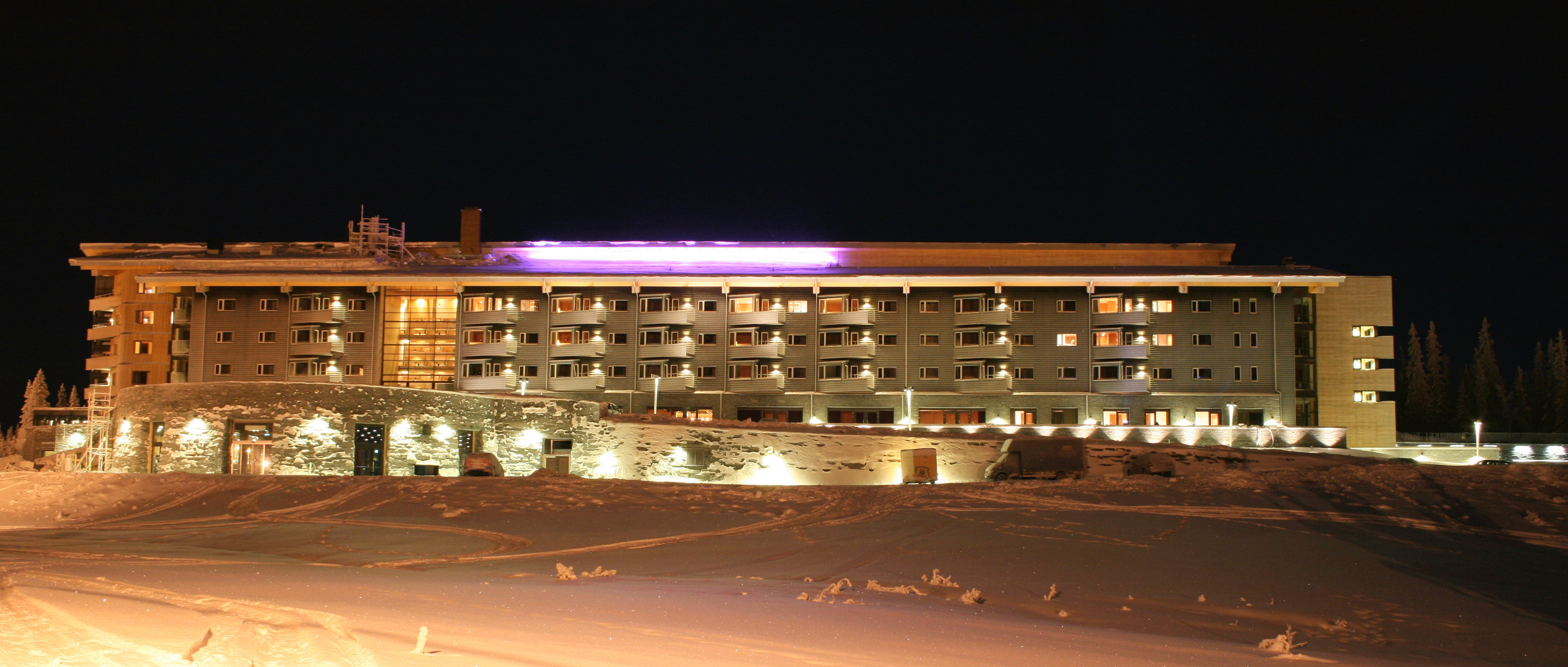 The hotel Copperhill Mountain Lodge in Åre Björnen, Sweden.